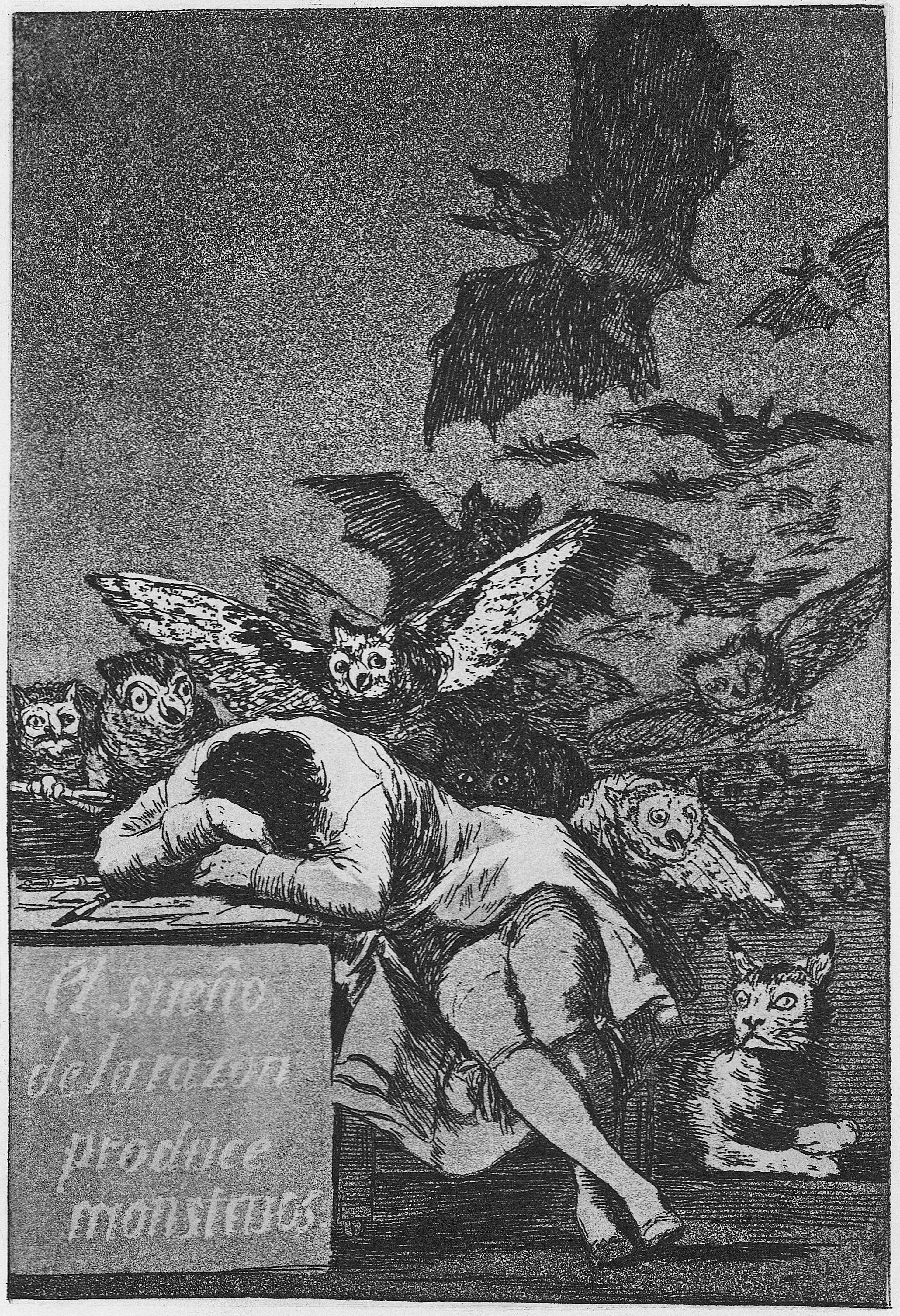 Scanned from a lithograph (or something similar) in a 1925 German edition of the Caprichos by User:Fastfission.